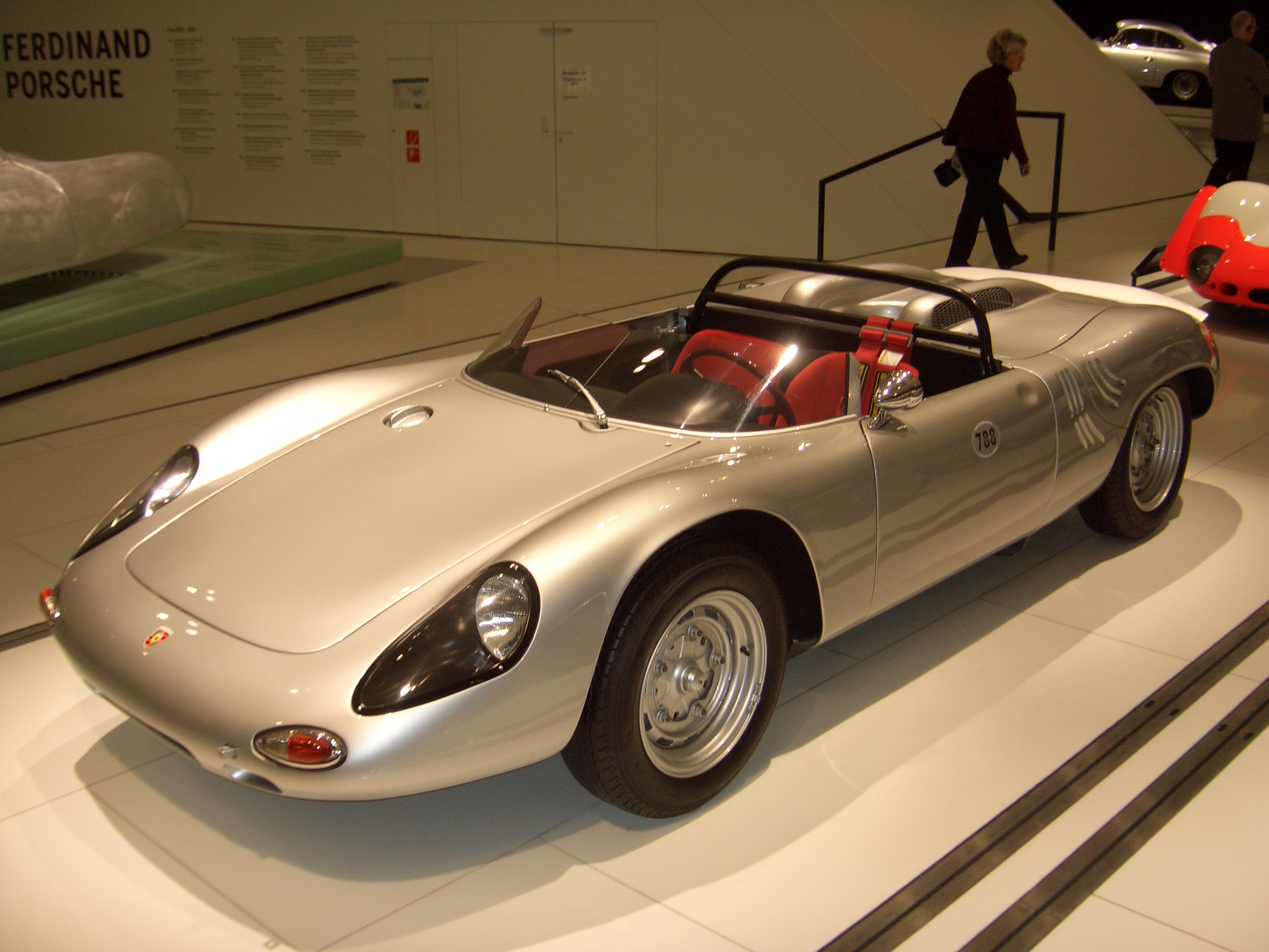 Porsche 718 W-RS Spyder-1961 frontright - seen at Porsche Museum Native namePorsche-MuseumLocationStuttgartCoordinates48° 50′ 07″ N, 9° 09′ 06″ E Established1976 (old museum) 2009 (new museum)Web page control : Q328623 VIAF: 138511768 GND: 2087859-X SUDOC: 155641123 NKC: ko2015876799 institution QS:P195,Q328623